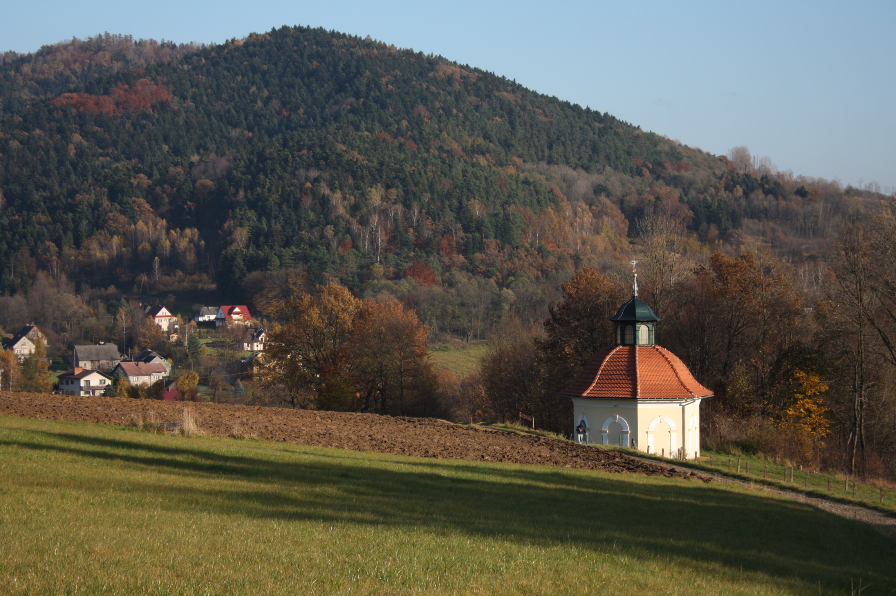 Bethsaida in Kalwaria Zebrzydowska